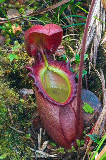 Nepenthes rajah photographed below the summit Mount Tambuyukon, Borneo (Alastair Robinson, May 2007) - lower pitcher.